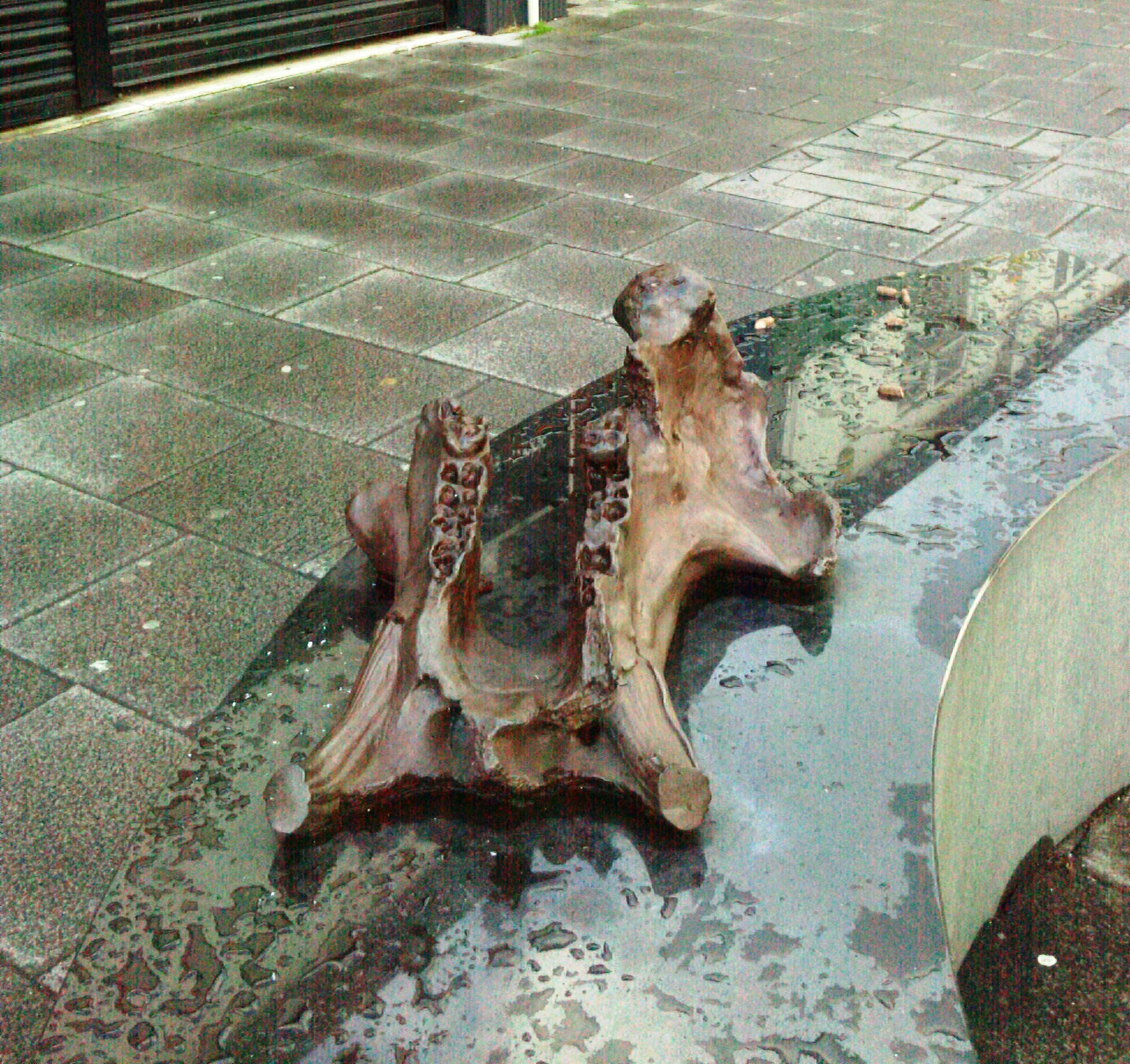 Allenton hippo is in Derby Museums, but this sculpture is in Allenton Shopping centre